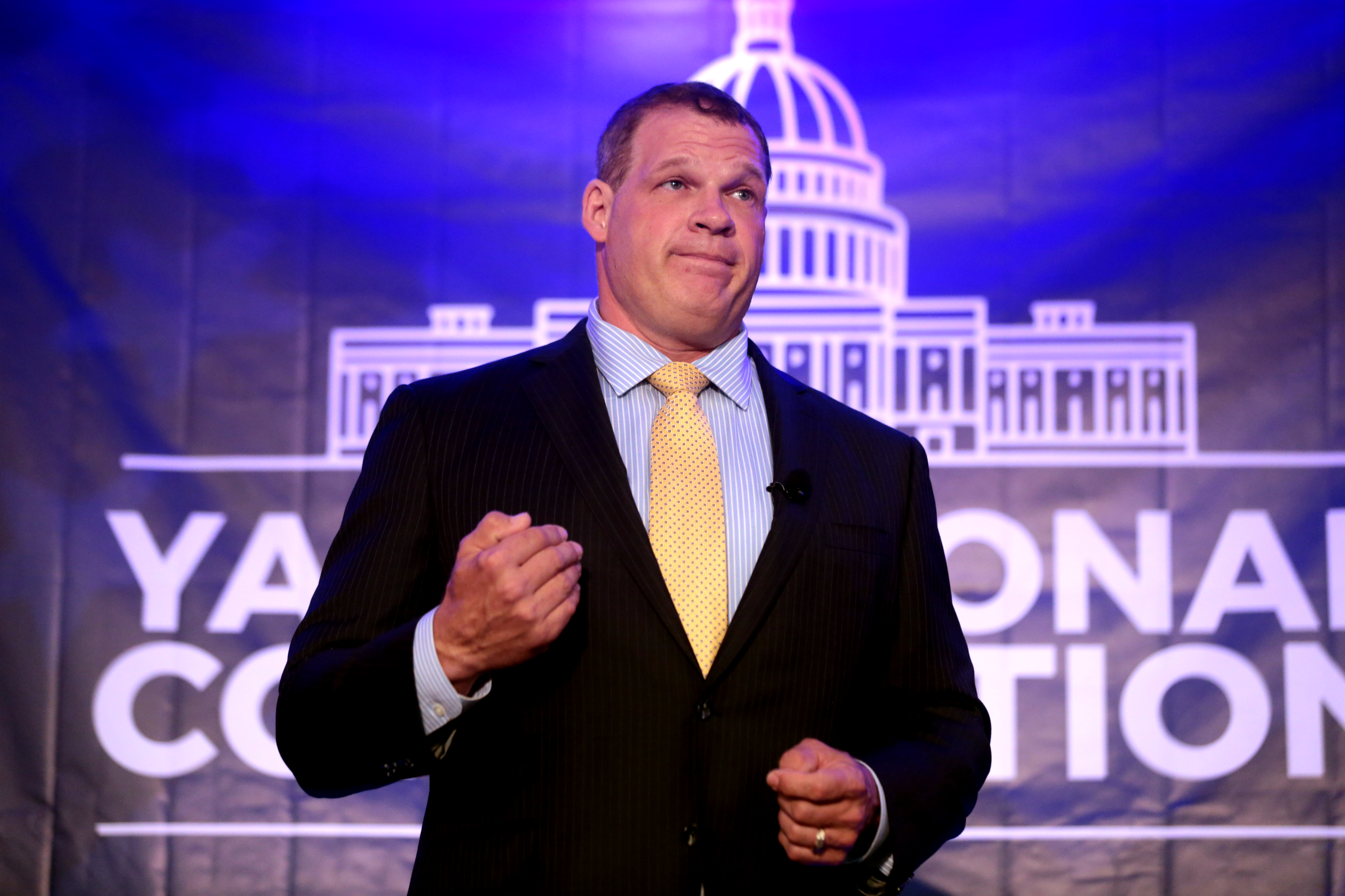 Glenn "Kane" Jacobs speaking with attendees at the 2017 Young Americans for Liberty National Convention at the Sheraton Reston Hotel in Reston, Virginia.